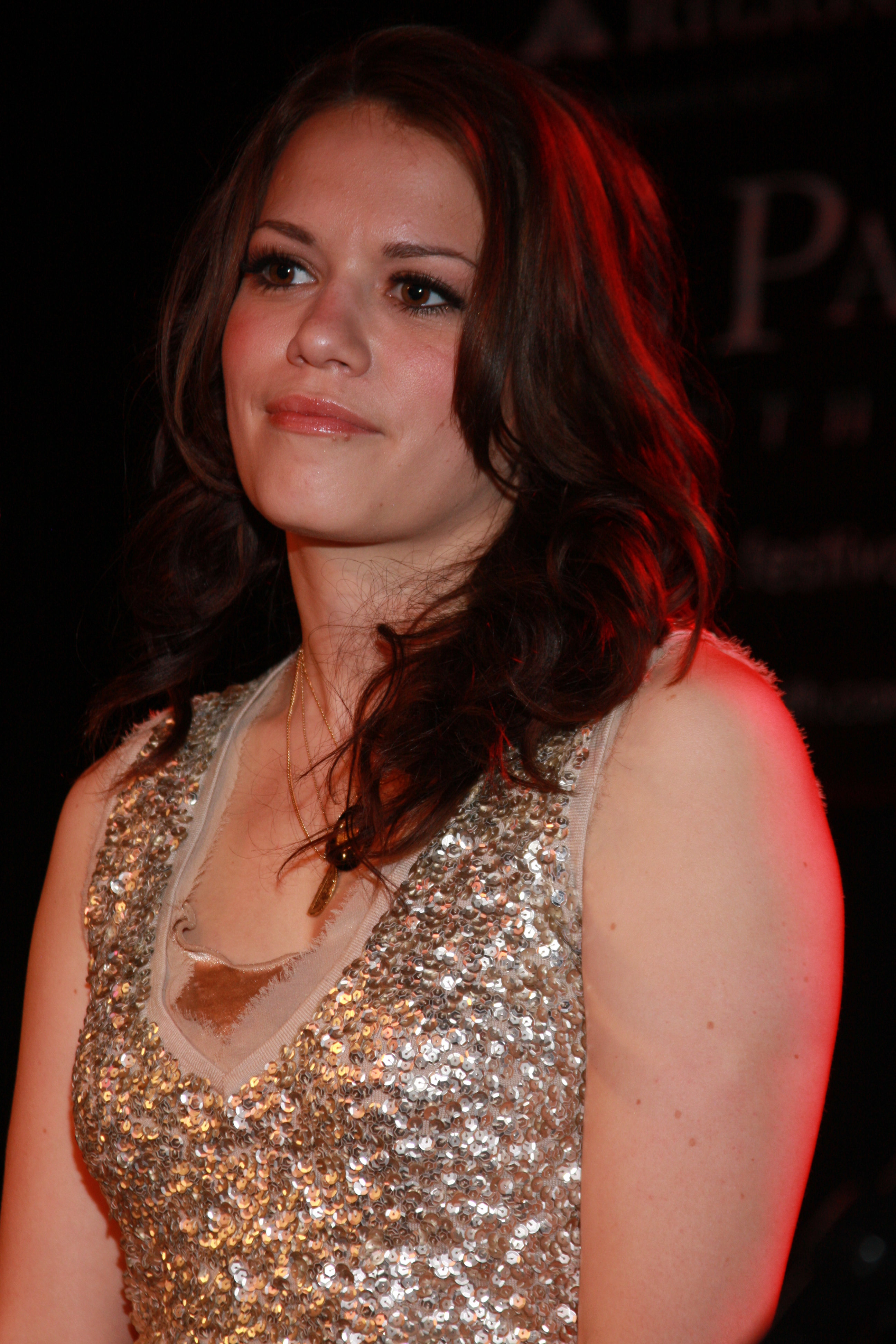 Bethany Joy Galeotti